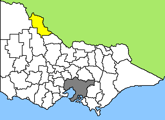 Map of Victoria/Australia, LGA of the Rural City of Swan Hill highlighted